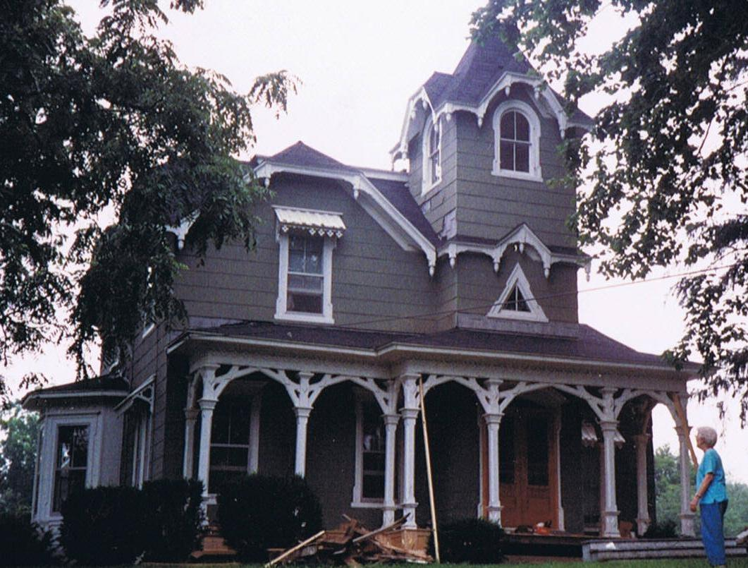 Picture of the former George Hayes property in Penn Yan, N. Y viewed by his Granddaughter, Elizabeth Anne (Betty)[nee Eaton] Blake 27 July 1989 2505 County Line Road